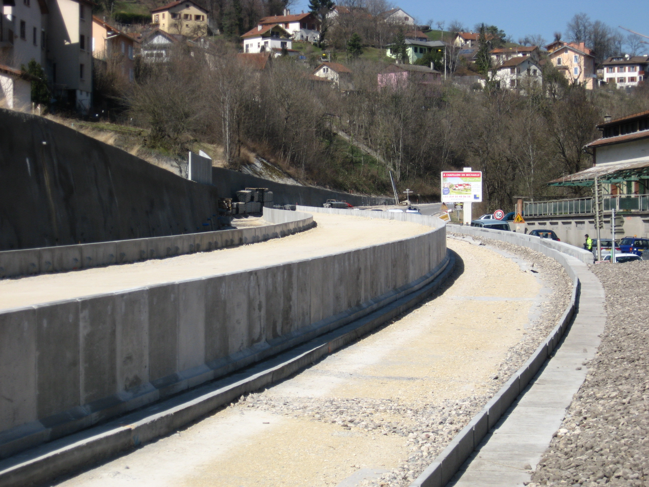 New platform for the TGV rebuild line to Bourg-en-Bresse in Bellegarde.